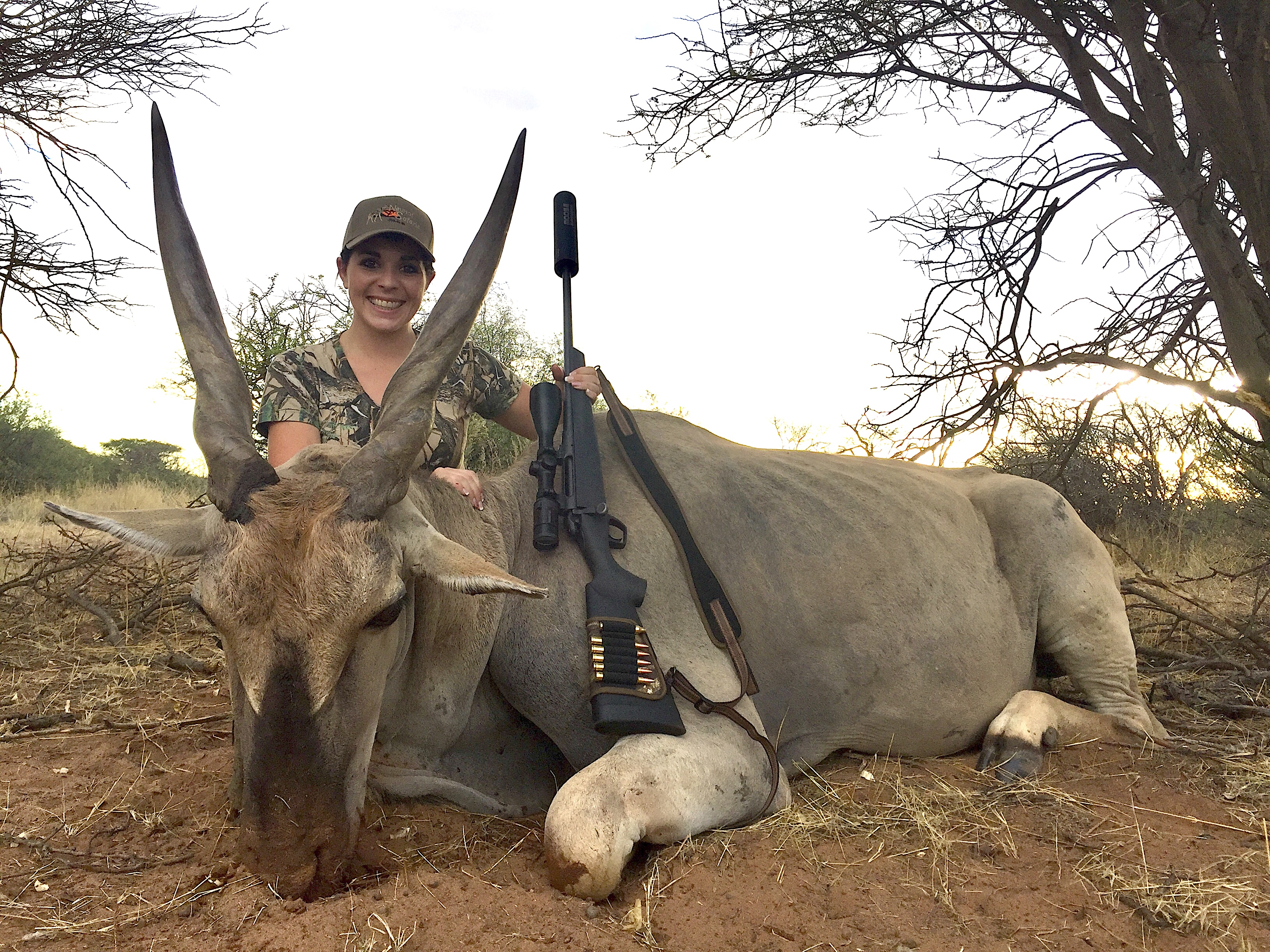 Huntress with a killed eland antelope (Taurotragus oryx) on a hunting farm in Namibia